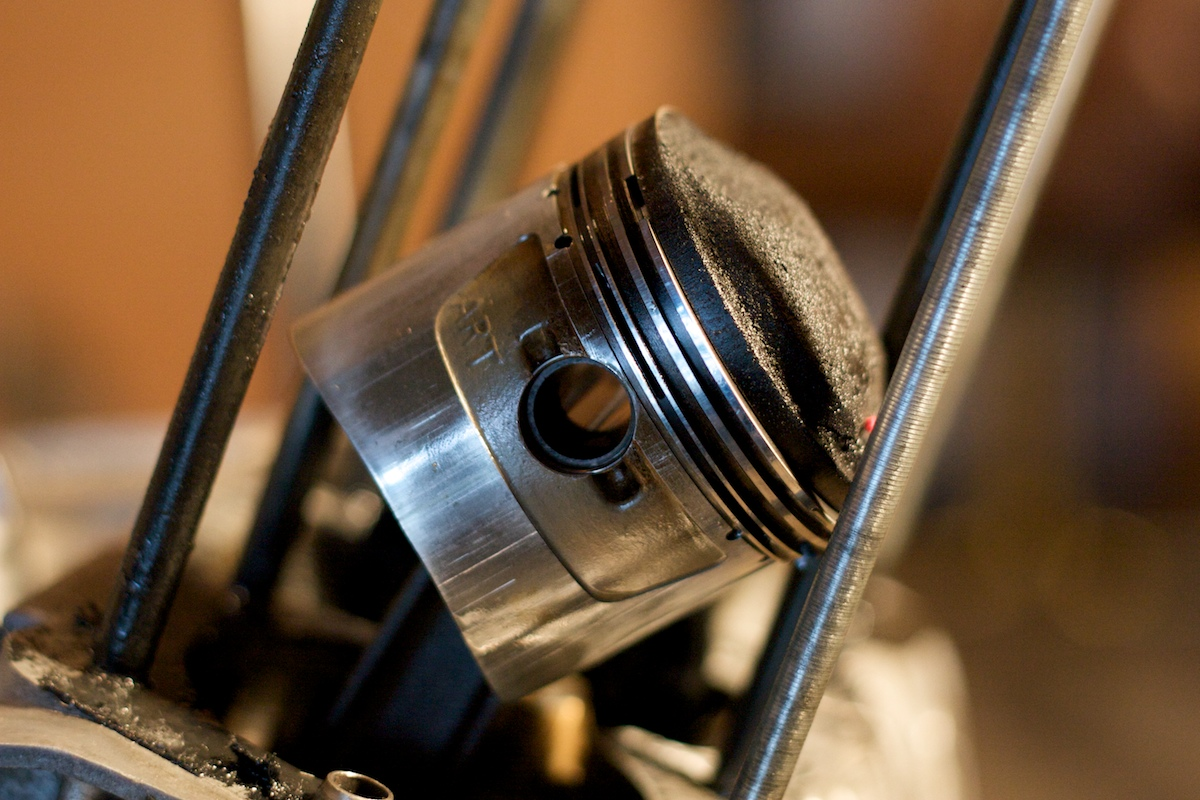 Piston rings